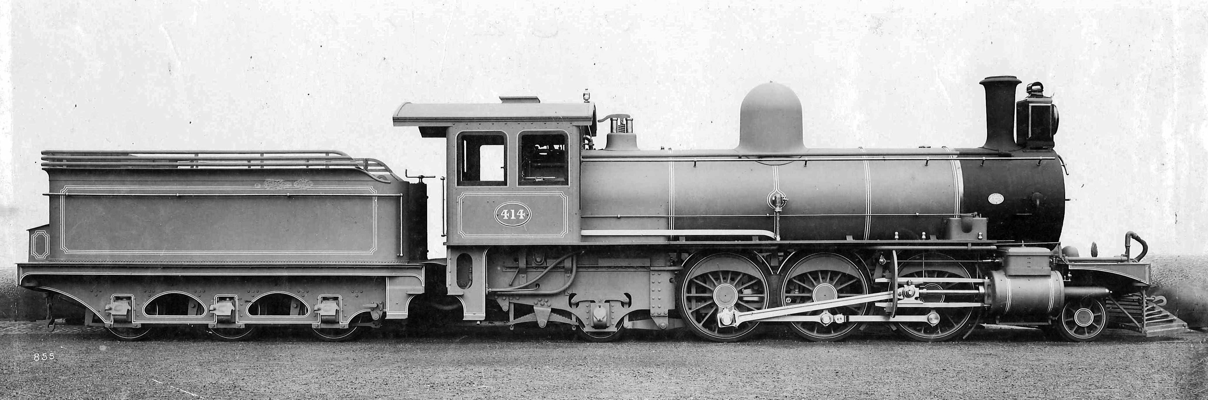 Cape Government Railways 2-6-2 (no. 270—273), soon rebuilt to 2-6-4, later became SAR Class 6Z.